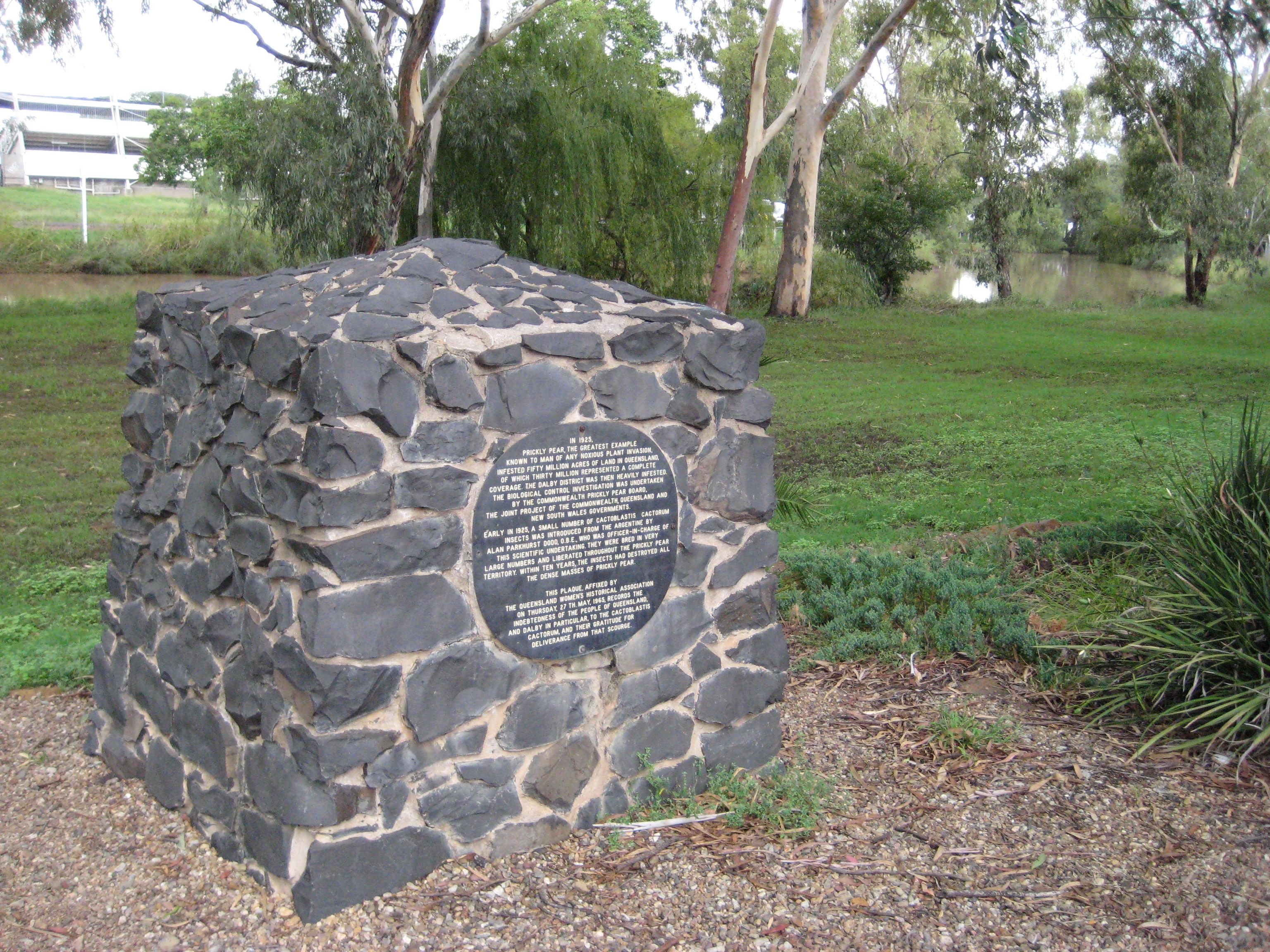 Monument to the 1920's control of prickly pear cactus infestation by the Cactoblastis moth